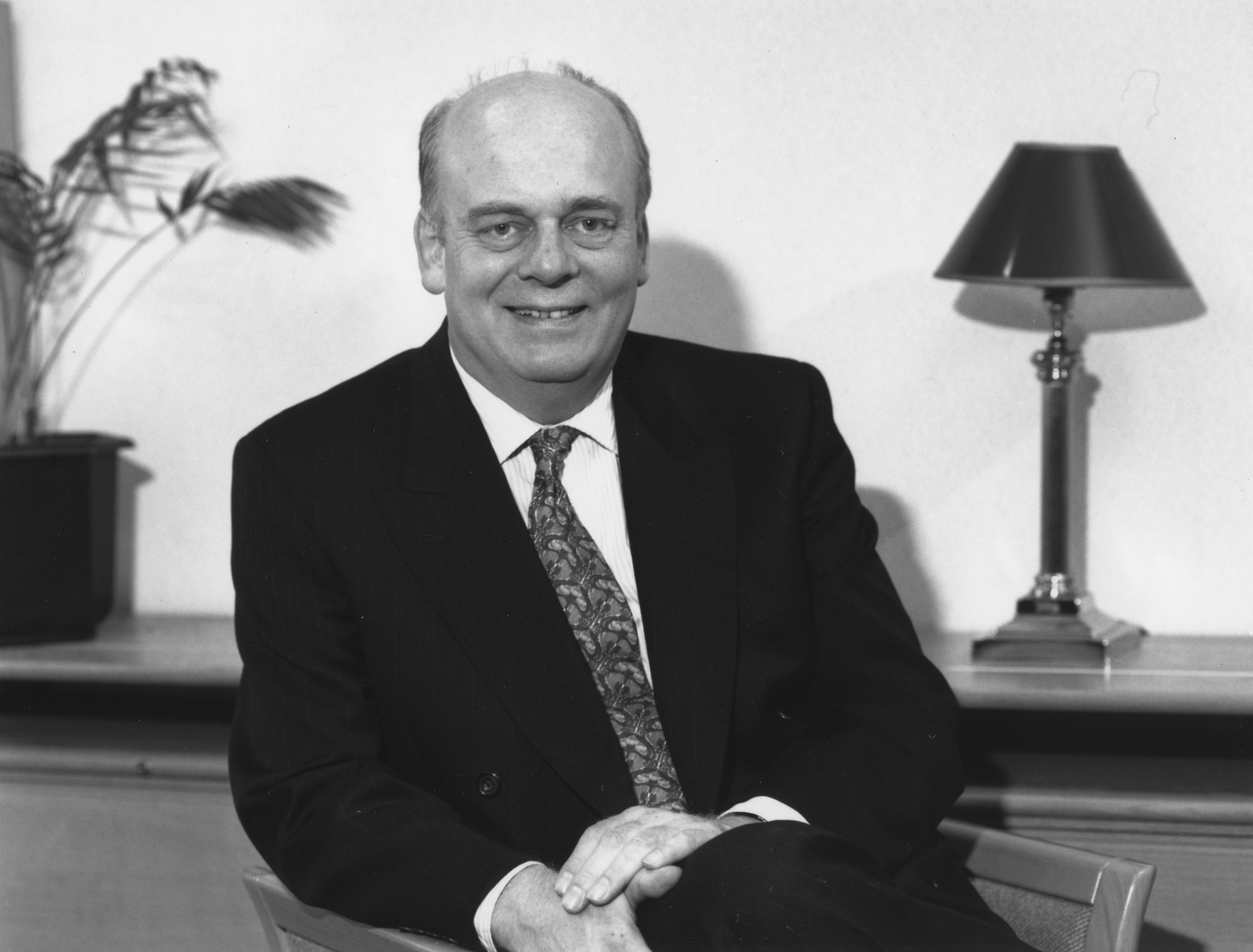 Director of Development LSE 1994-1996, Liberal Democrat Politician IMAGELIBRARY/748 Persistent URL